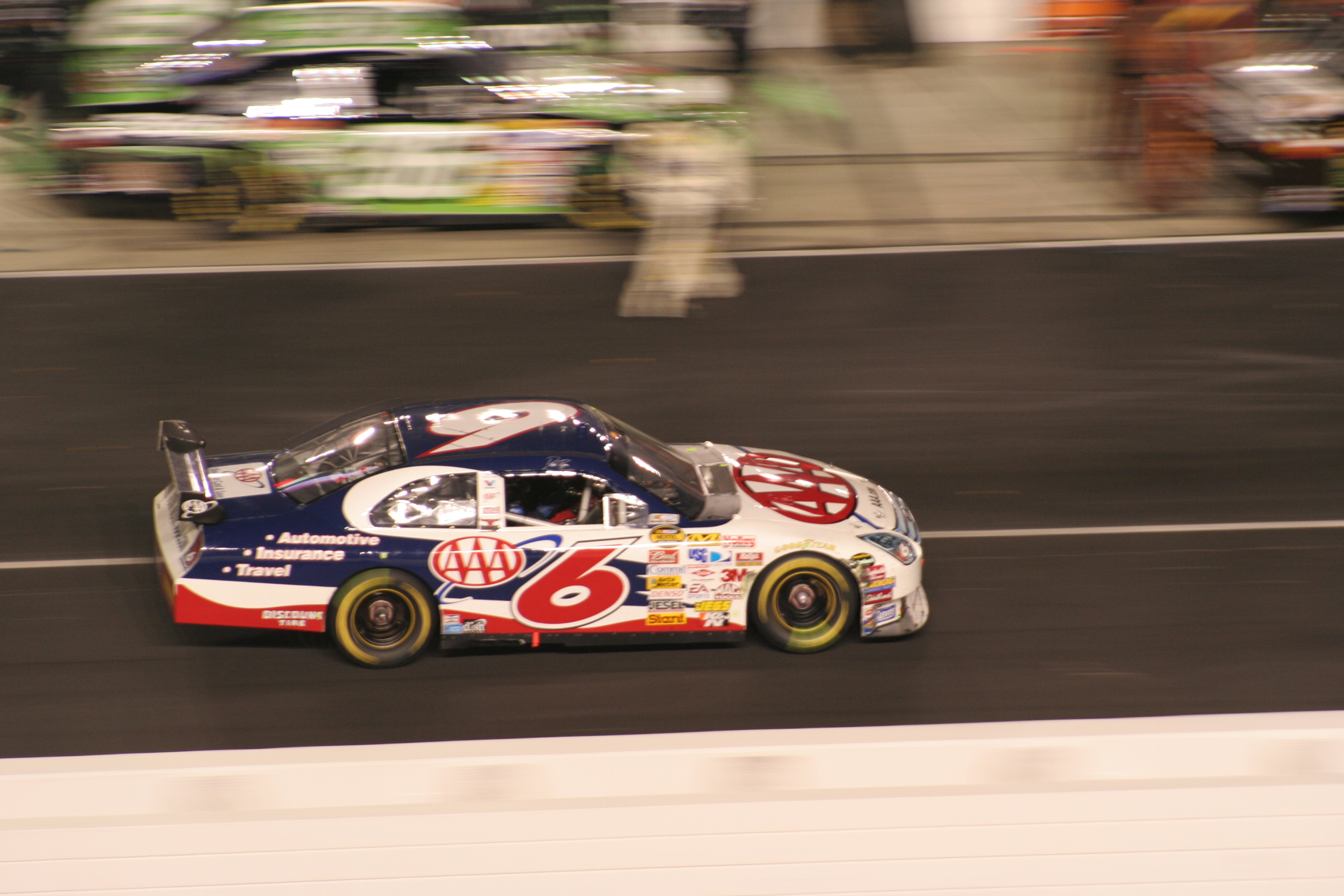 David Regan at Bristol Motor Speedway in August 2007.